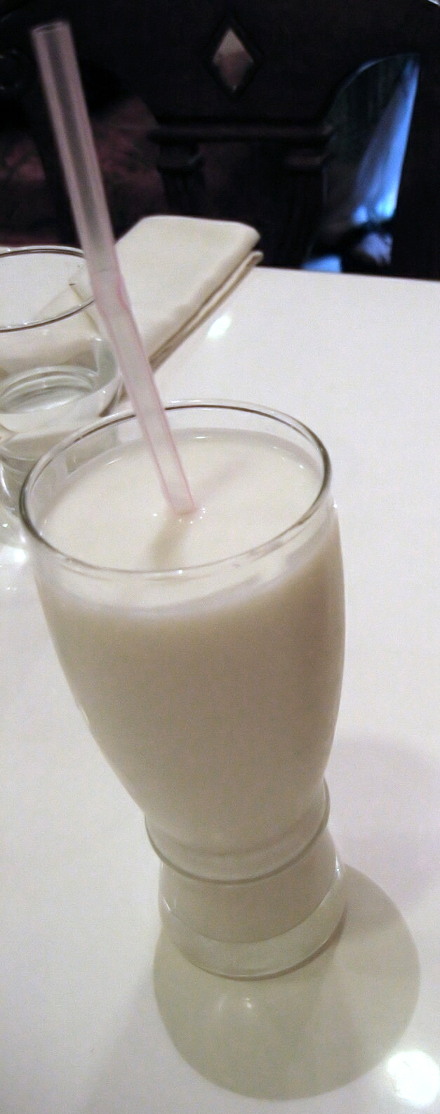 A glass of lassi.